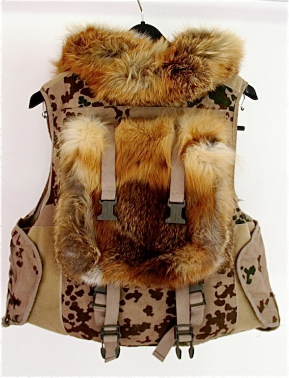 Back of a vest from a fashion line for soldiers and suicide bombers created by the artist. Made of Afghan fox fur added it to a flak jacket.